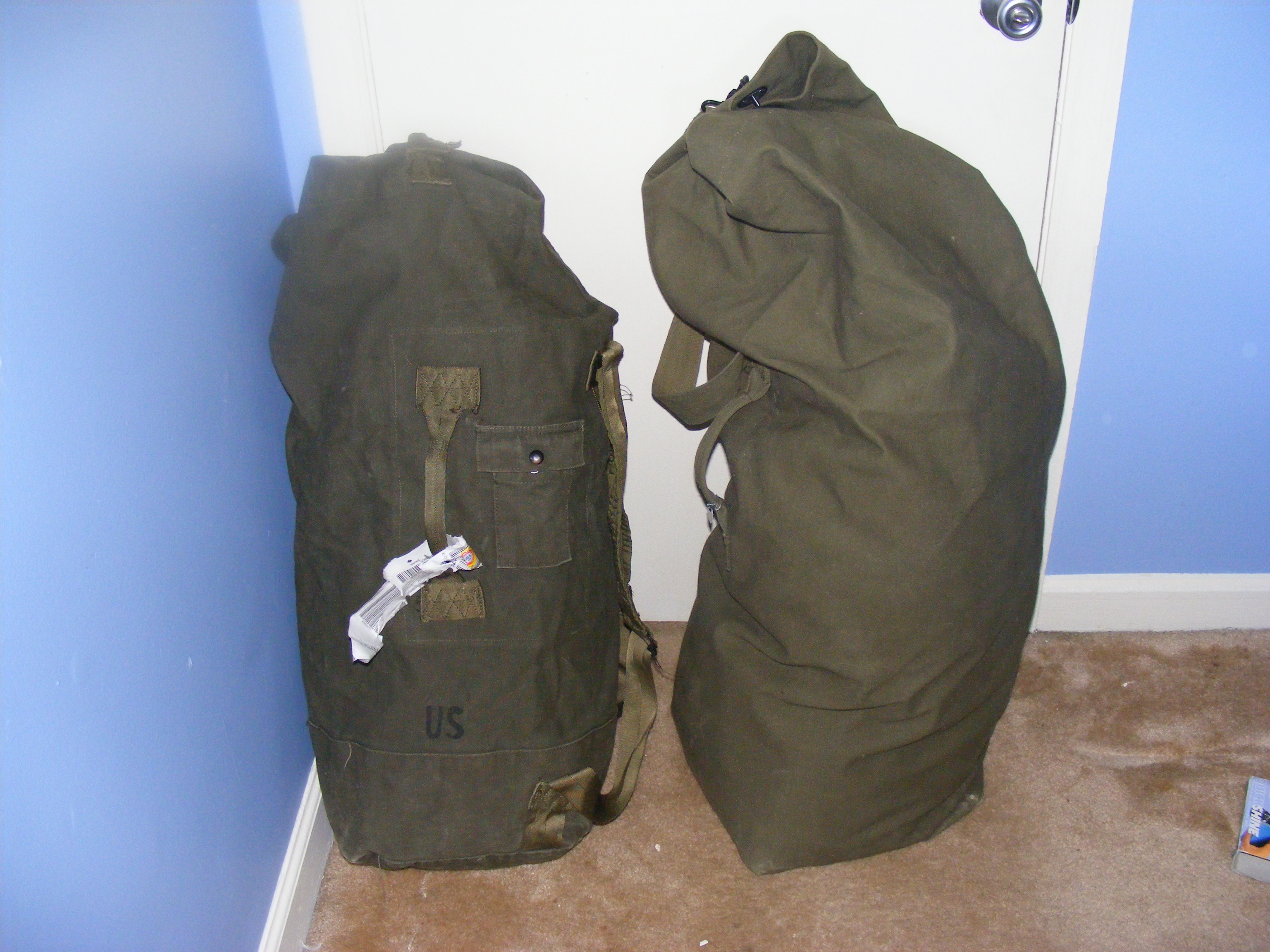 Two sea bags (duffel bags used by naval personnel)